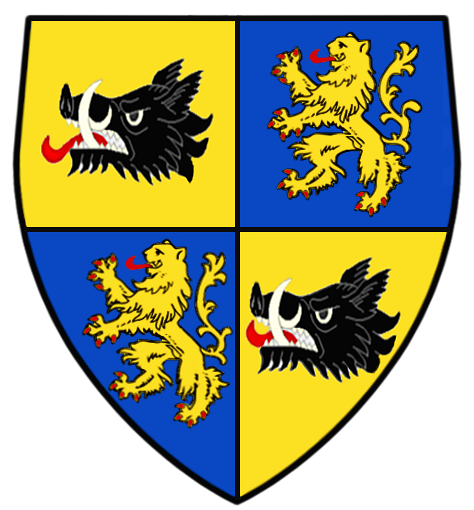 Coat of arms of Rozmital family